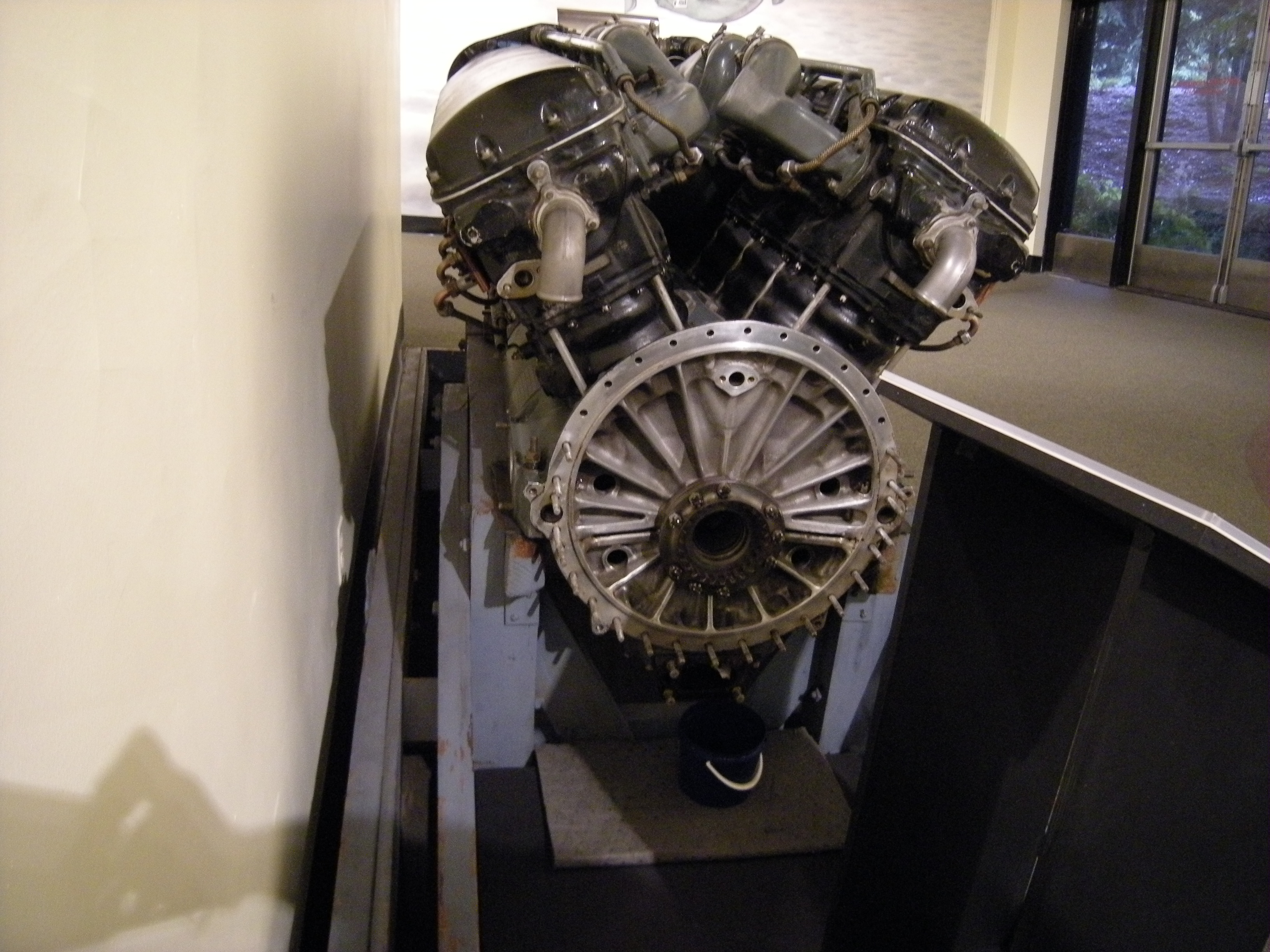 The Allison engine of Slo-Mo-Shun IV hydroplane, holder of the water speed record set June 26, 1950 (and bettered July 7, 1952), surpassed by Bluebird K7 on July 23, 1955. The engine originally came from a P-38 fighter plane